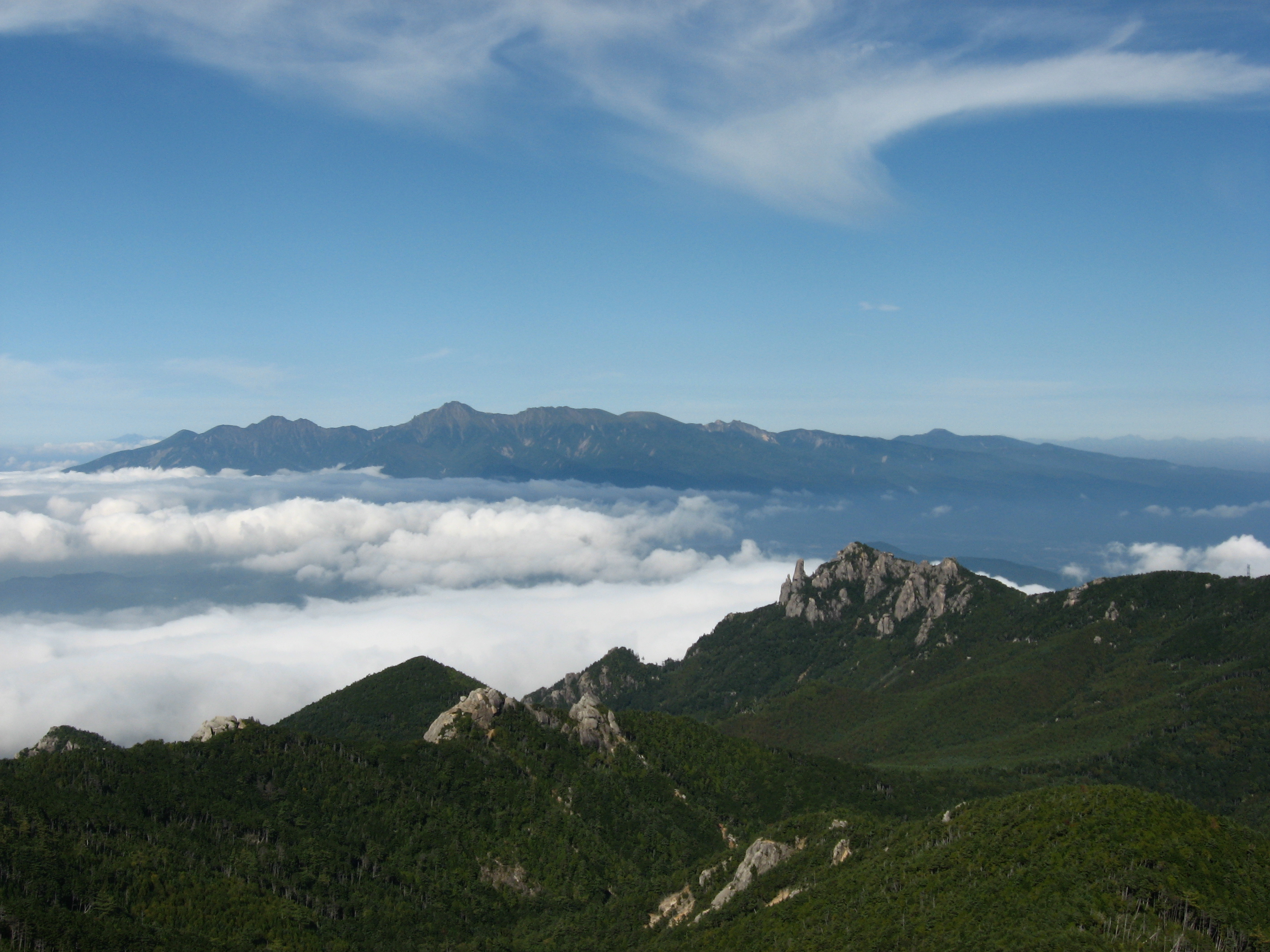 Mts.Yatsugatake and Mt.Mizugaki as seen from Mt.Kimpu, Mts.Okuchichibu, Honshu, Japan.